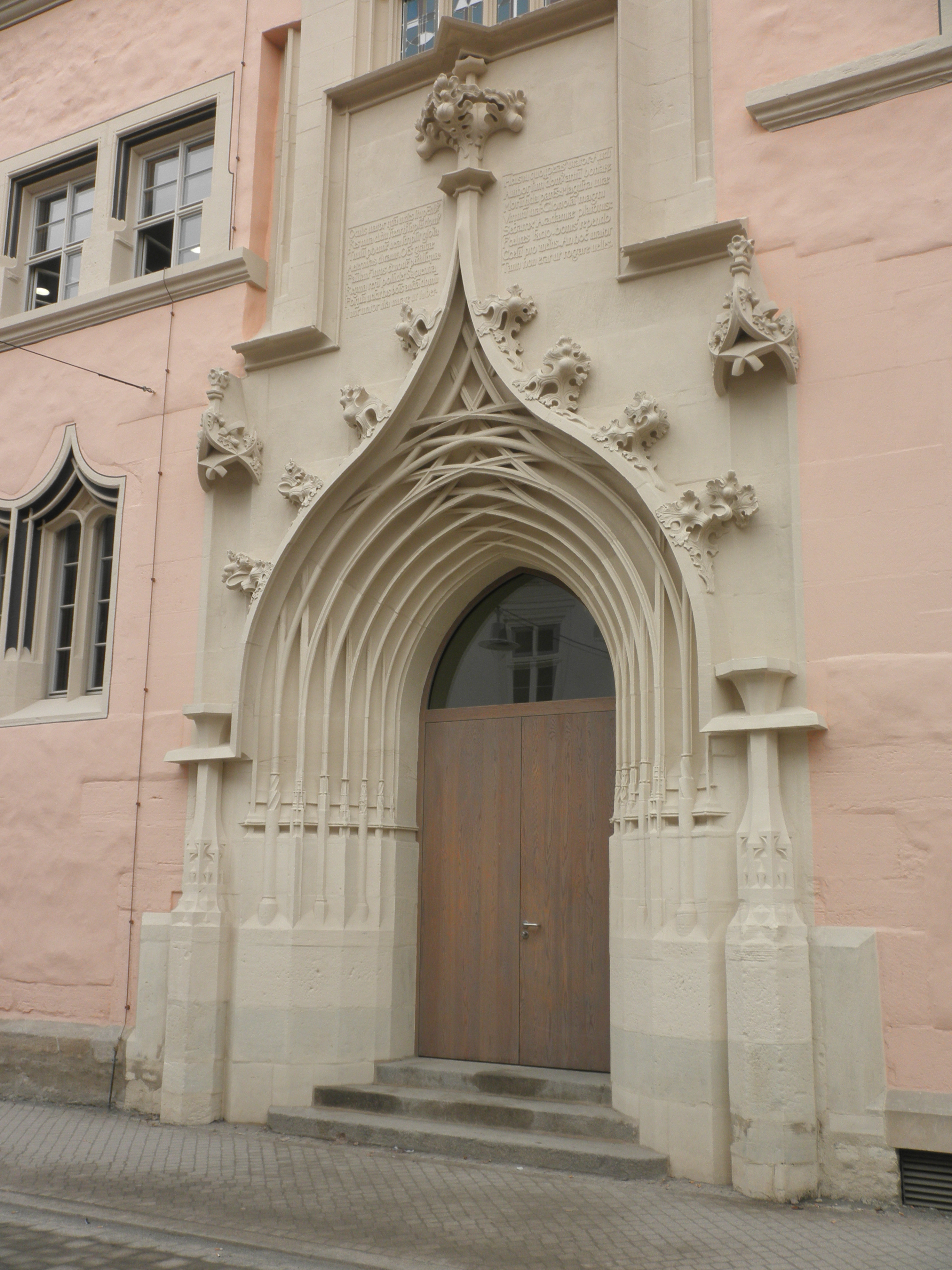 Portal of Collegium Maius in Erfurt (2011)